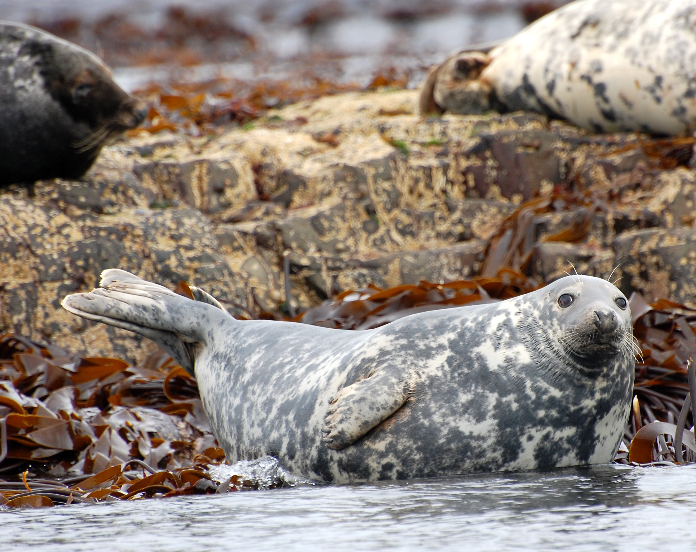 Grey Seal On Farne Islands